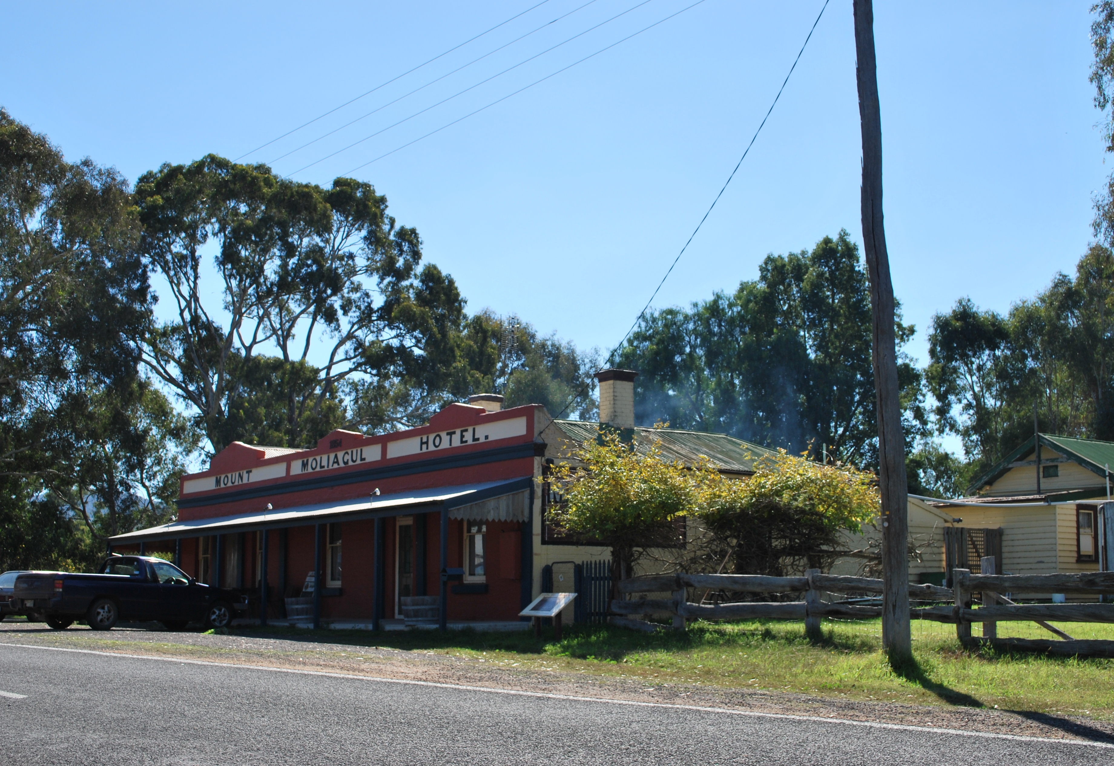 Mount Moliagul Hotel at Moliagul, Victoria